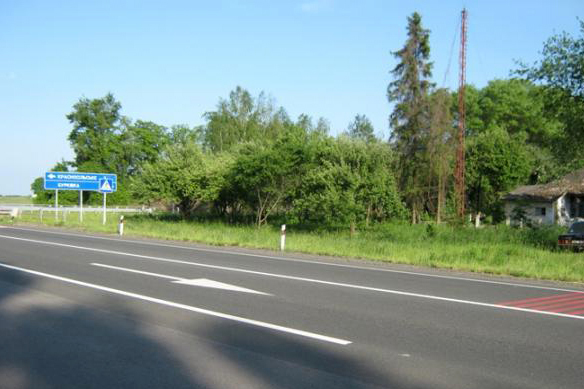 Highway Kiev - Moscow, the 720 th km.